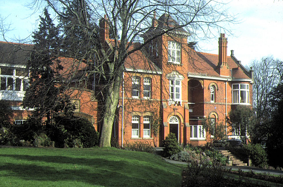 Main Hall, Crossmead, former University of Exeter Hall of Residence